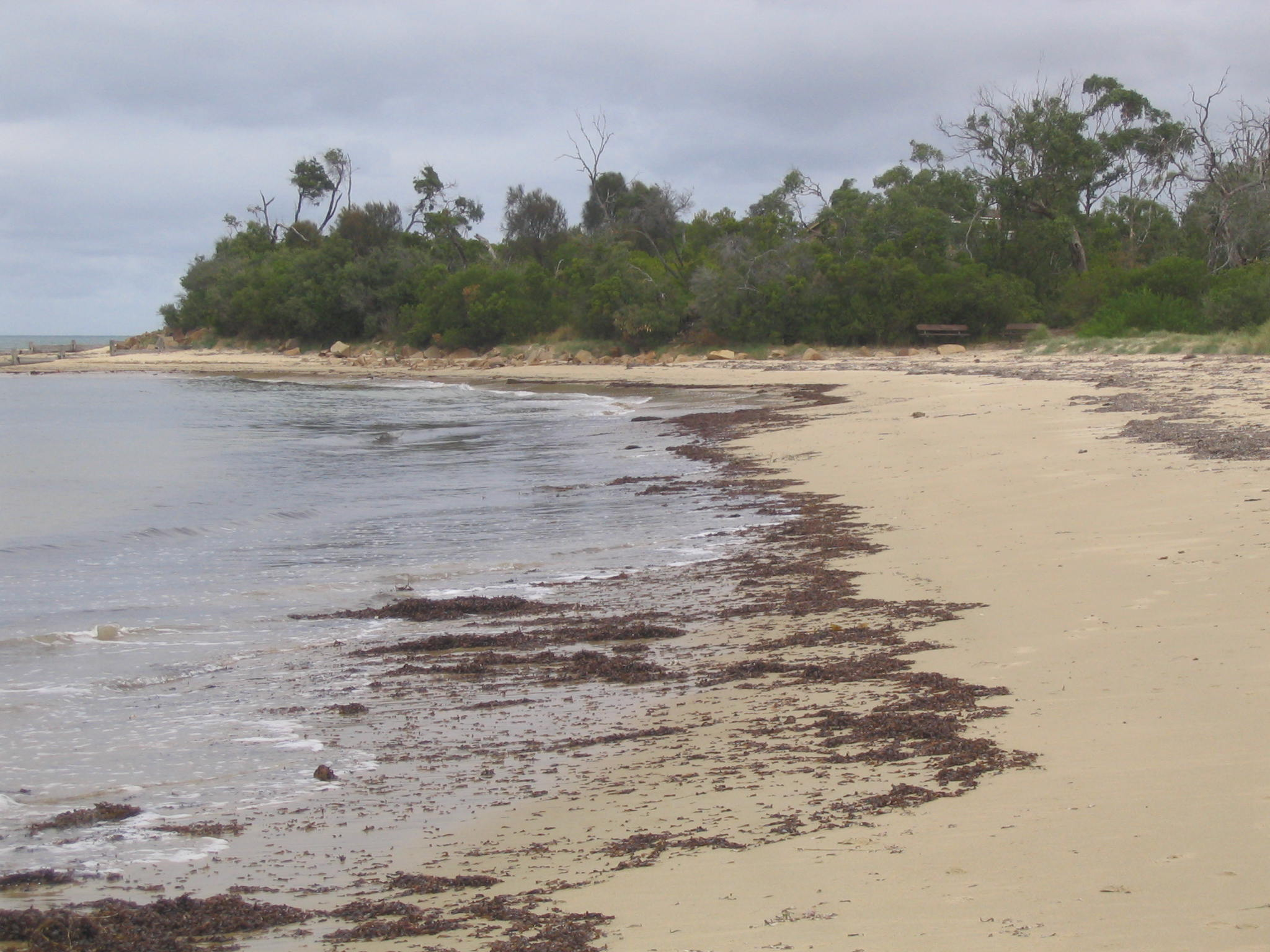 Taken at Balnarring Beach in March 2006 by Honk squeak.